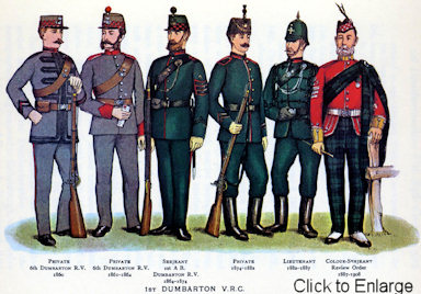 Uniforms of the Dumbartonshire Rifle Volunteers as per Major General James Moncrieff Grierson's Scottish Volunteers book